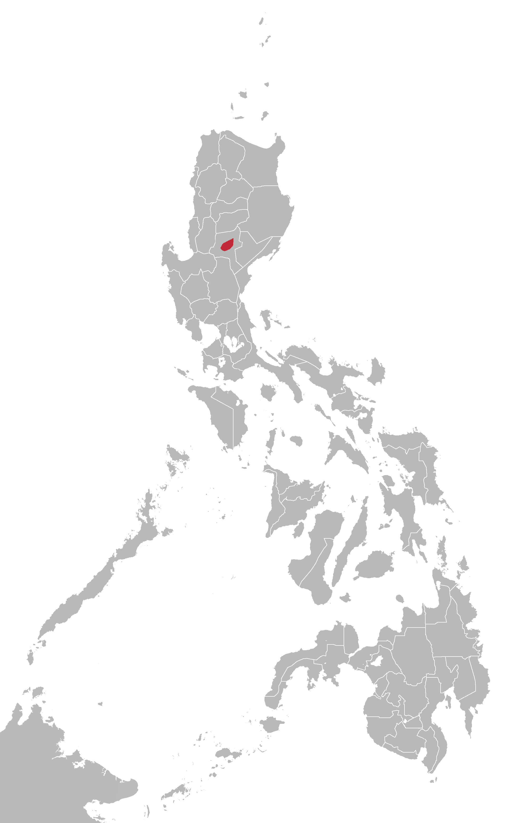 Isinai language map based on Ethnologue maps